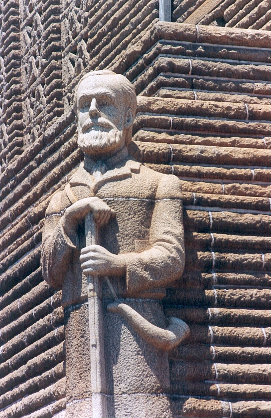 Granite statue of Piet Retief at the Voortrekker Monument, Pretoria